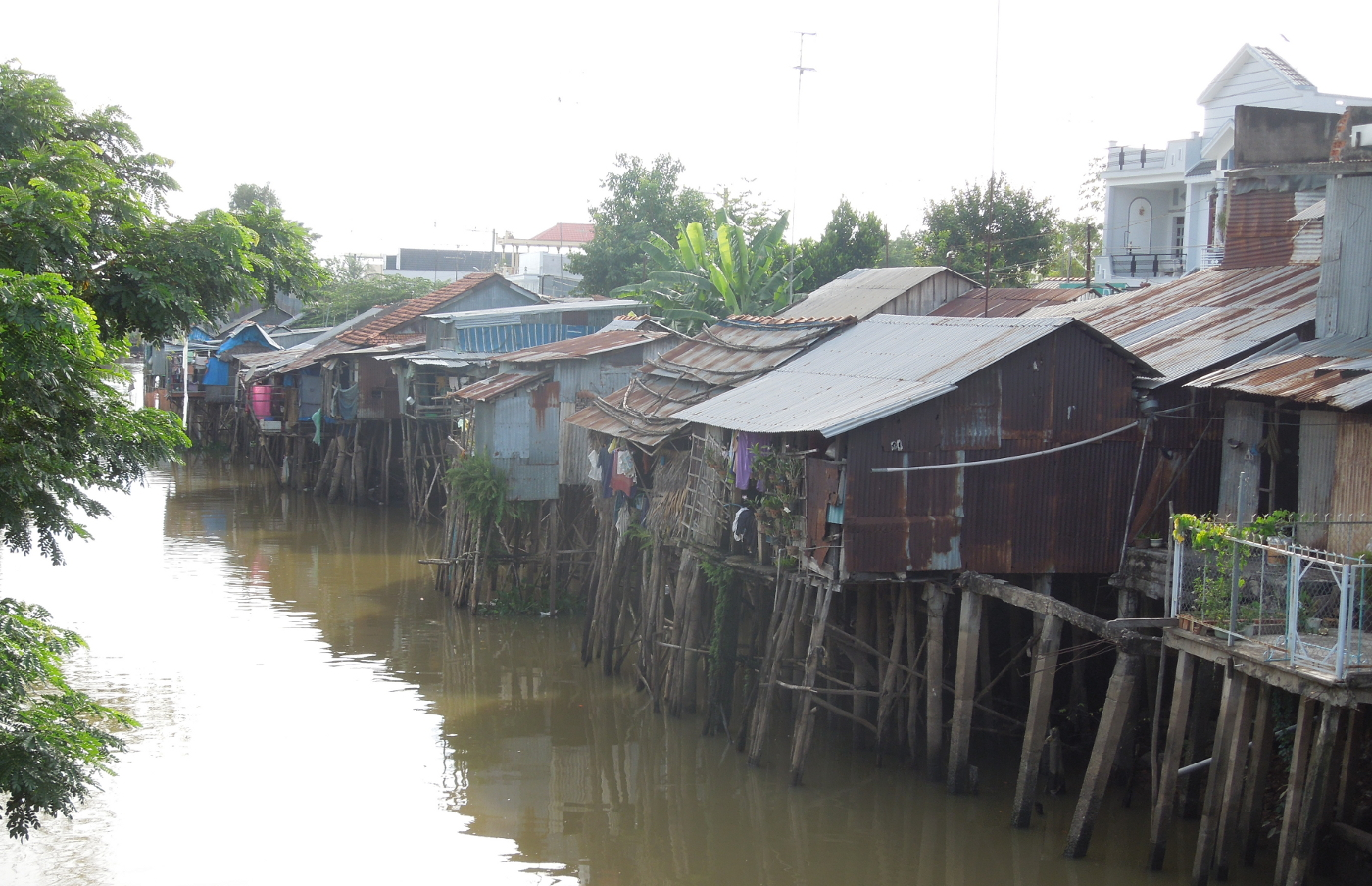 Raised floor house above on the river in Mekong delta. at ChauDoc, AnGian, VietNam.